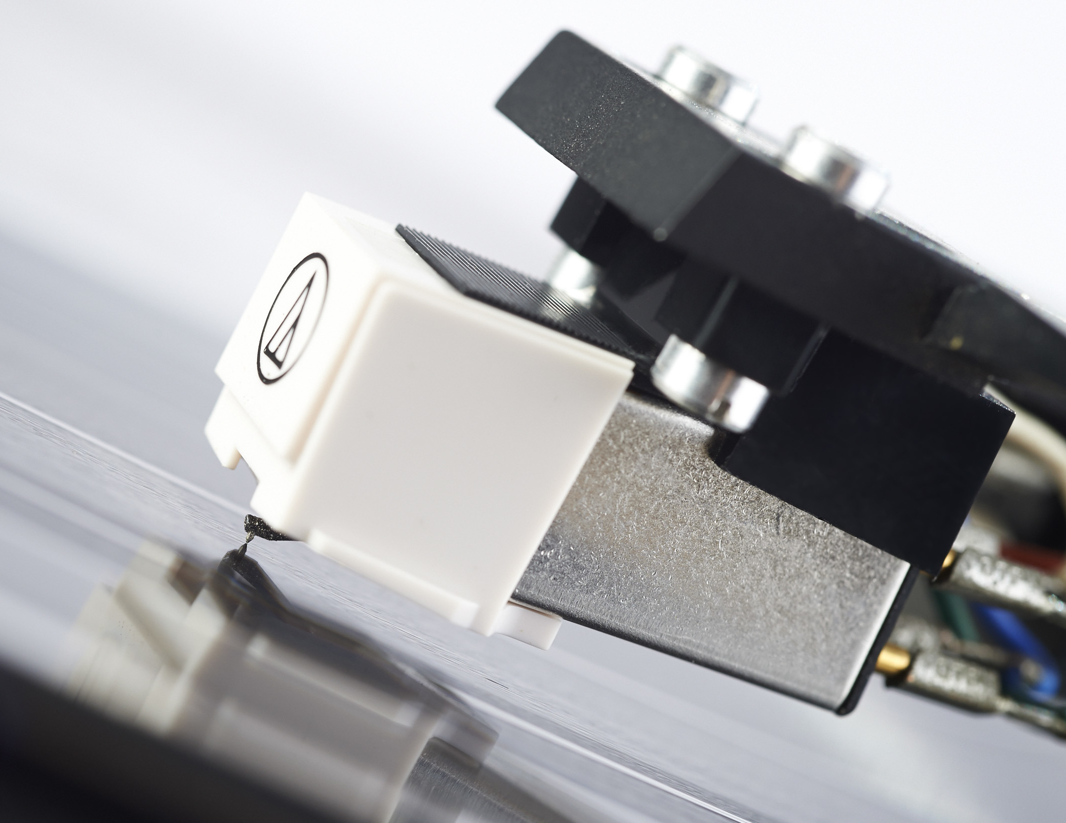 Acoustic Research